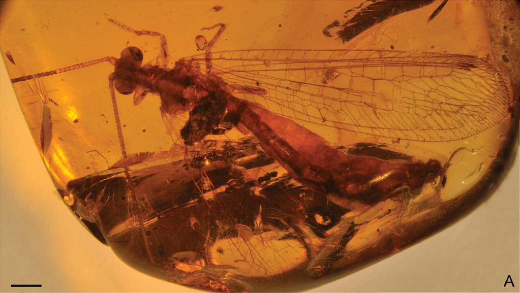 Parababinskaia makarkini, holotype male. A Habitus photograph, dorsal view Scale bar: 1.0 mm.